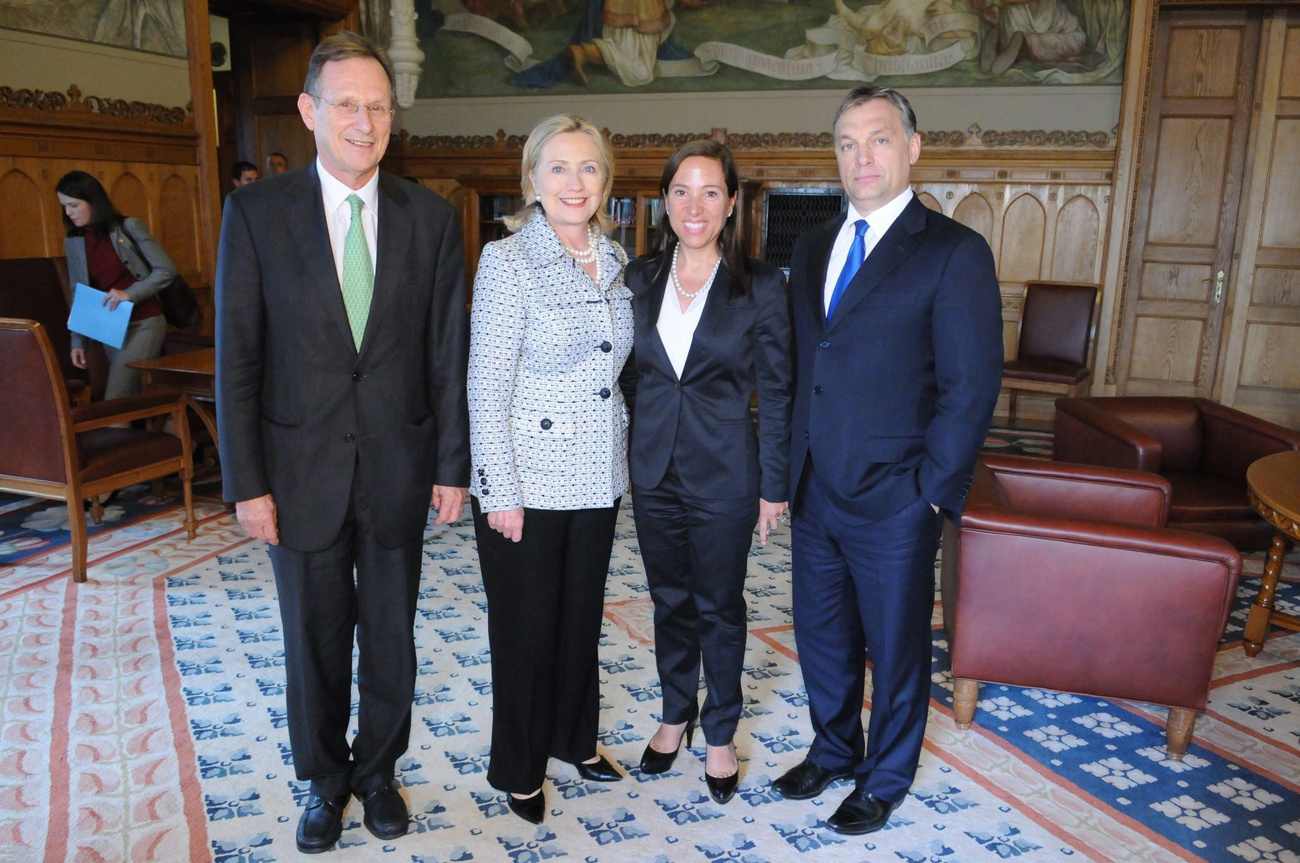 György Szapáry, Hillary Clinton, Eleni Tsakopoulos Kounalakis and Viktor Orbán